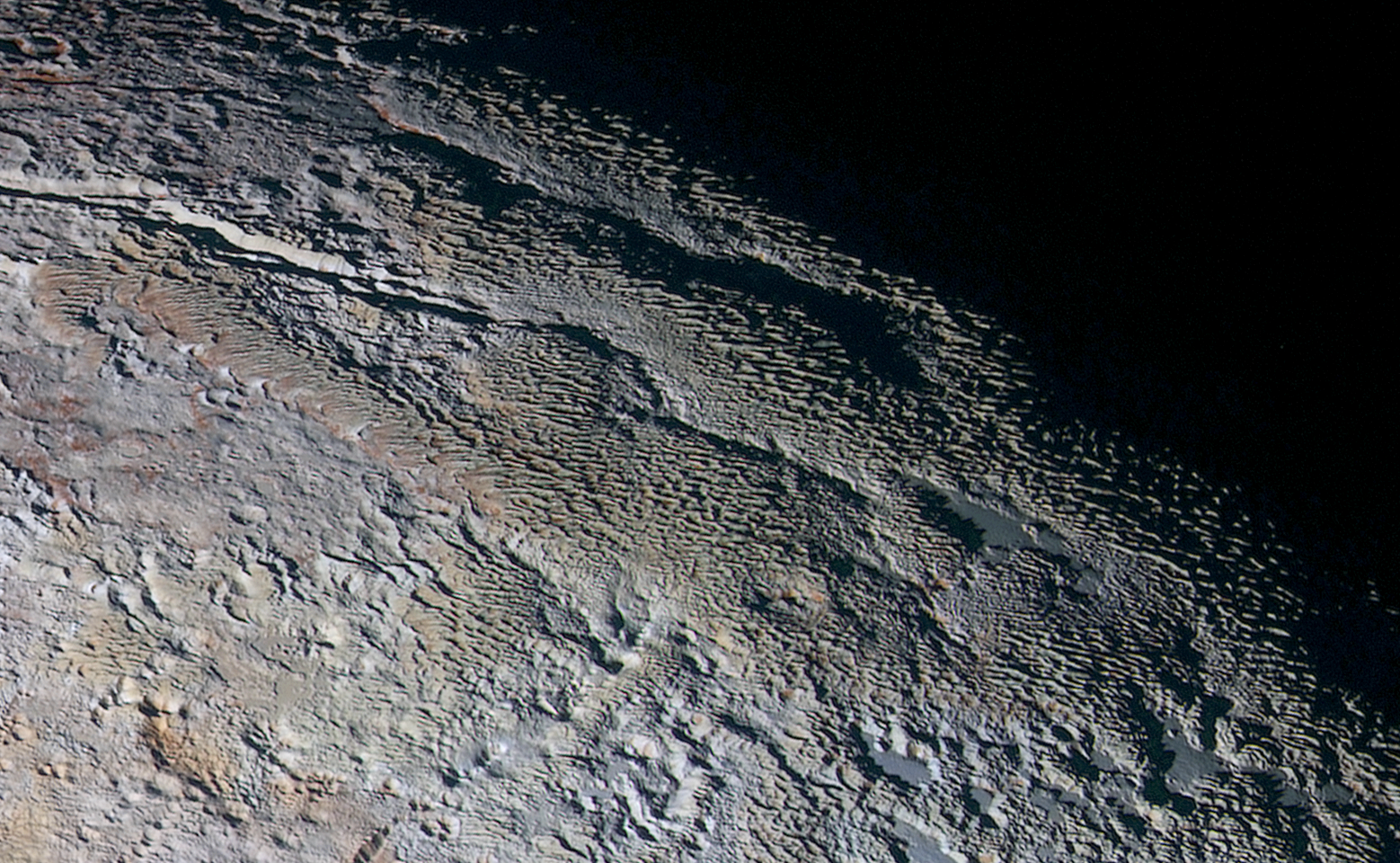 Scale-like "snakeskin" terrain covers the Tartarus Dorsa region of mountains on Pluto. This terrain, imaged by the New Horizons space probe, has been identified as penitentes formed by erosion.